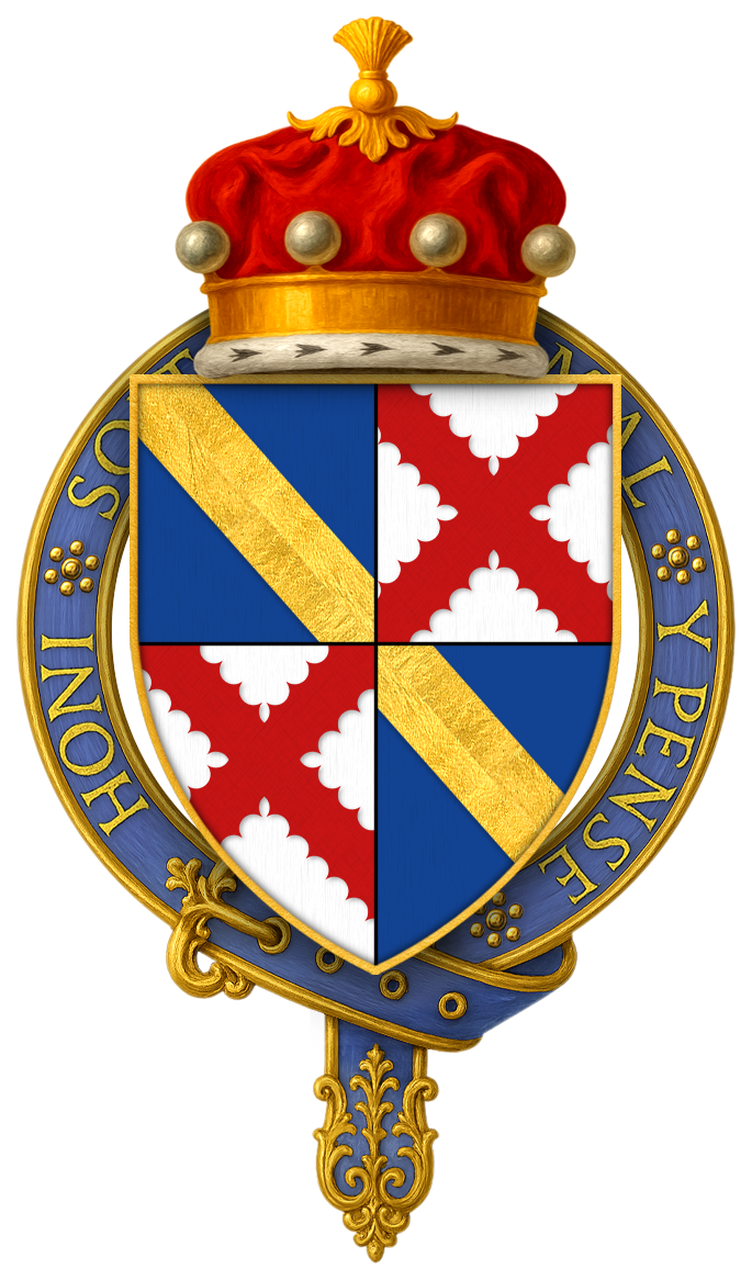 Sir John Scrope, 5th Baron Scrope of Bolton, KG HOPE, W. H. St. John, The Stall Plates of the Knights of the Order of the Garter 1348 – 1485: A Series of Ninety Full-Sized Coloured Facsimiles with Descriptive Notes and Historical Introductions, Westminster: Archibald Constable and Company LTD, 1901. “ Plate LXX - Sir John le Scrope, Lord Scrope of Bolton, K.G. 1461-1498… The arms are quarterly: 1 and 4, azure a bend gold (for Scrope); 2 and 3, silver a saltire gules (for Tiptoft). ” Lord Scrope's stall plate remains intact within the seventeenth stall, on the south side of the chapel. NOTE: Hope blazons the 2nd and 3rd quarters as silver a saltire gules. However, on Lord Scrope's stall plate the saltire is clearly engrailed.